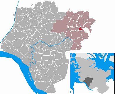 This map shows the area of the municipality Störkathen in the Kreis (district) Steinburg, Schleswig-Holstein, Germany.